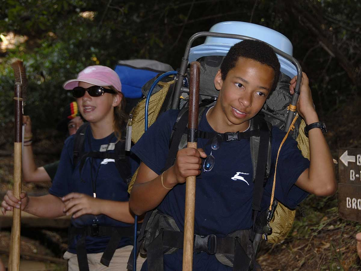 Candidates from White Stag at summer camp, 2009. Marin County, California.